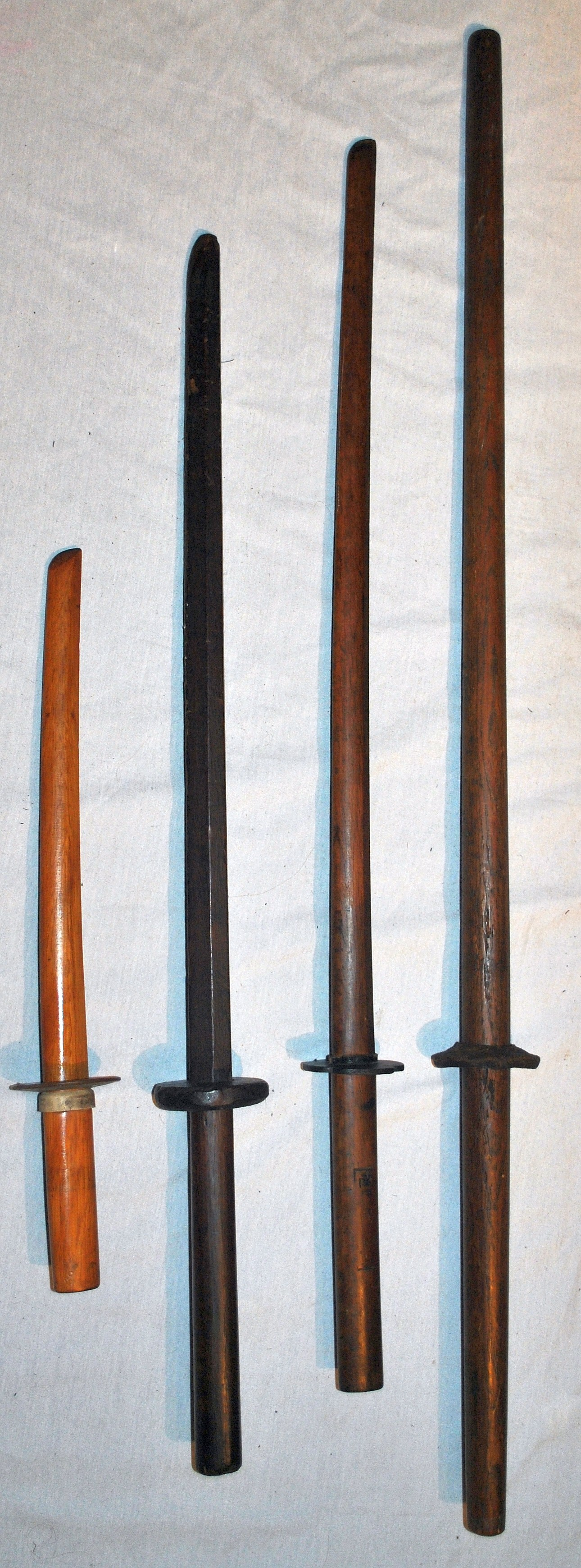 Various Japanese bokken or bokuto (wooden swords).